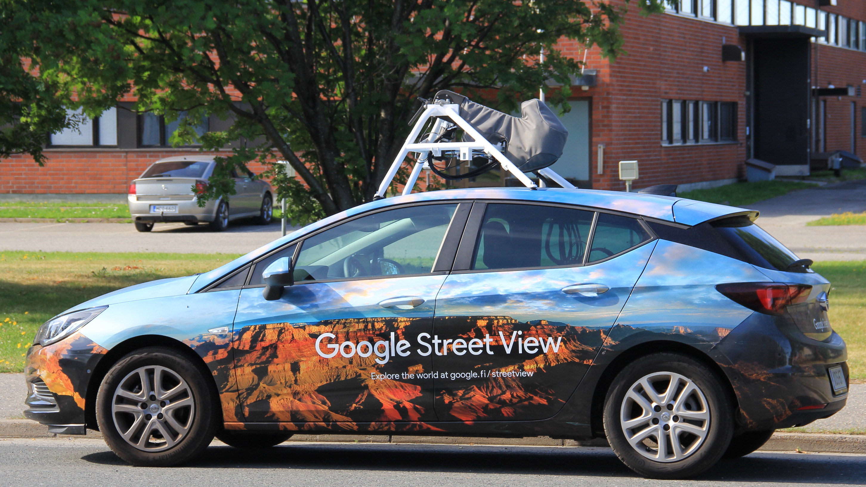 Google Street View camera car, Nahkurinkatu, Kemi, Finland. - Opel Astra+ (K) 1.4, 110 kW, first registered in february 2019.